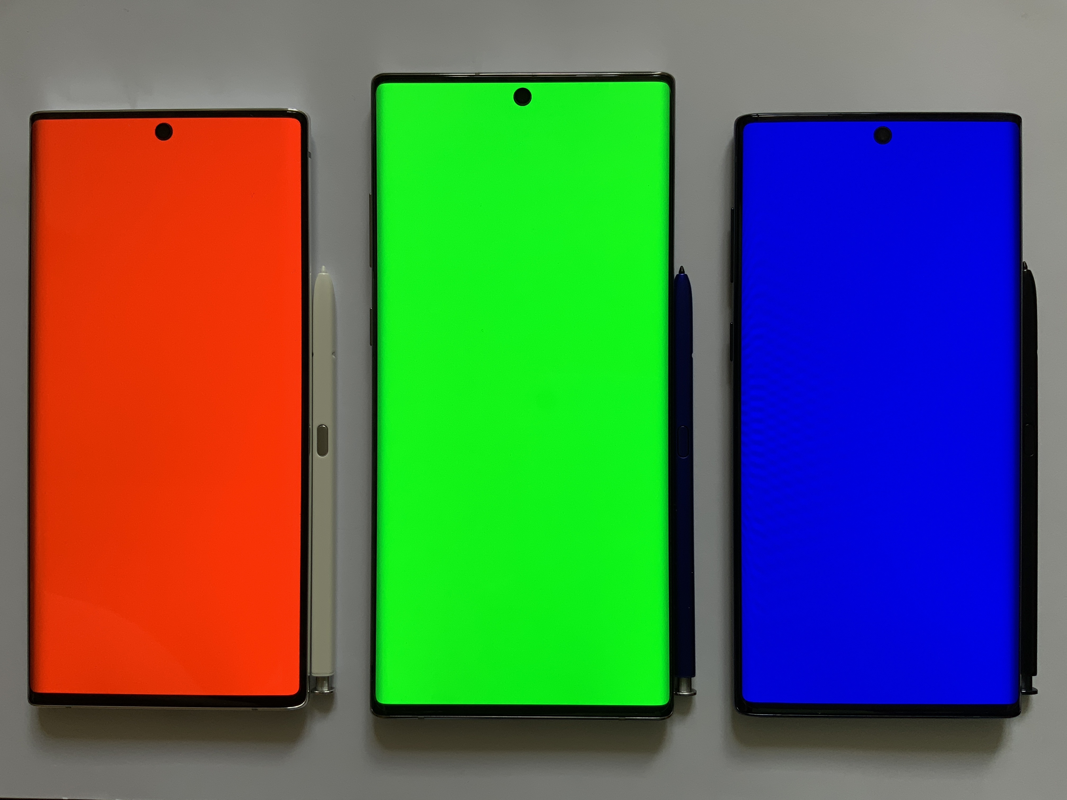 Samsung Dynamic AMOLED screens on Samsung Galaxy Note 10